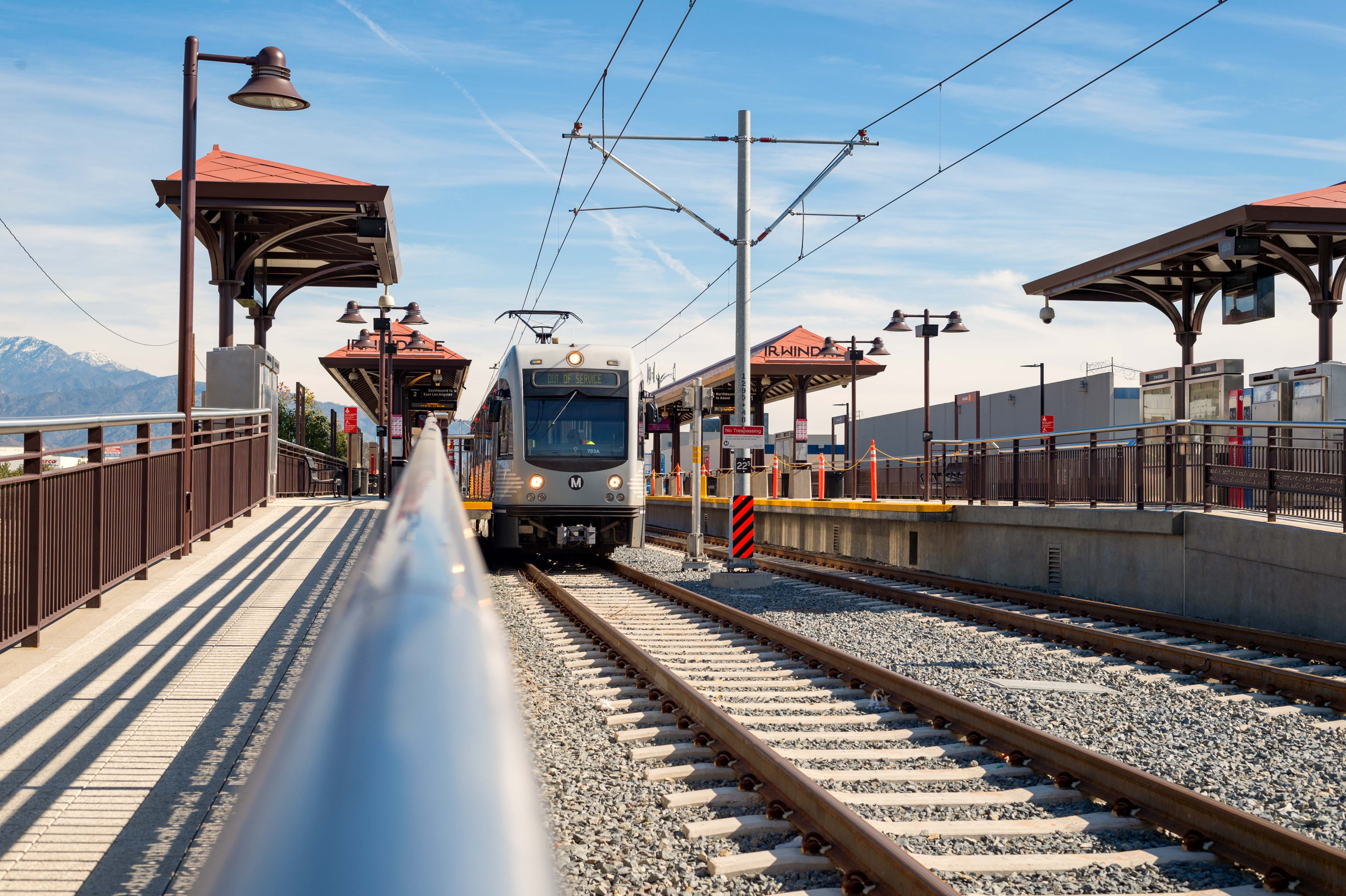 This is a photo of Irwindale station on the LACMTA Gold Line.